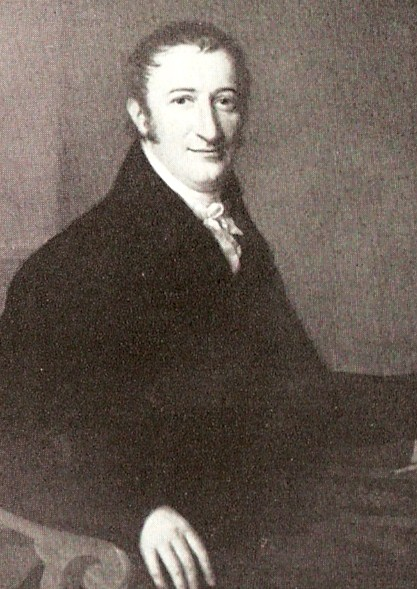 Conrad Hinrich Donner (1774-1854), merchant and banker in Hamburg (Germany), founder of "Conrad Hinrich Donner Bank" in Hamburg